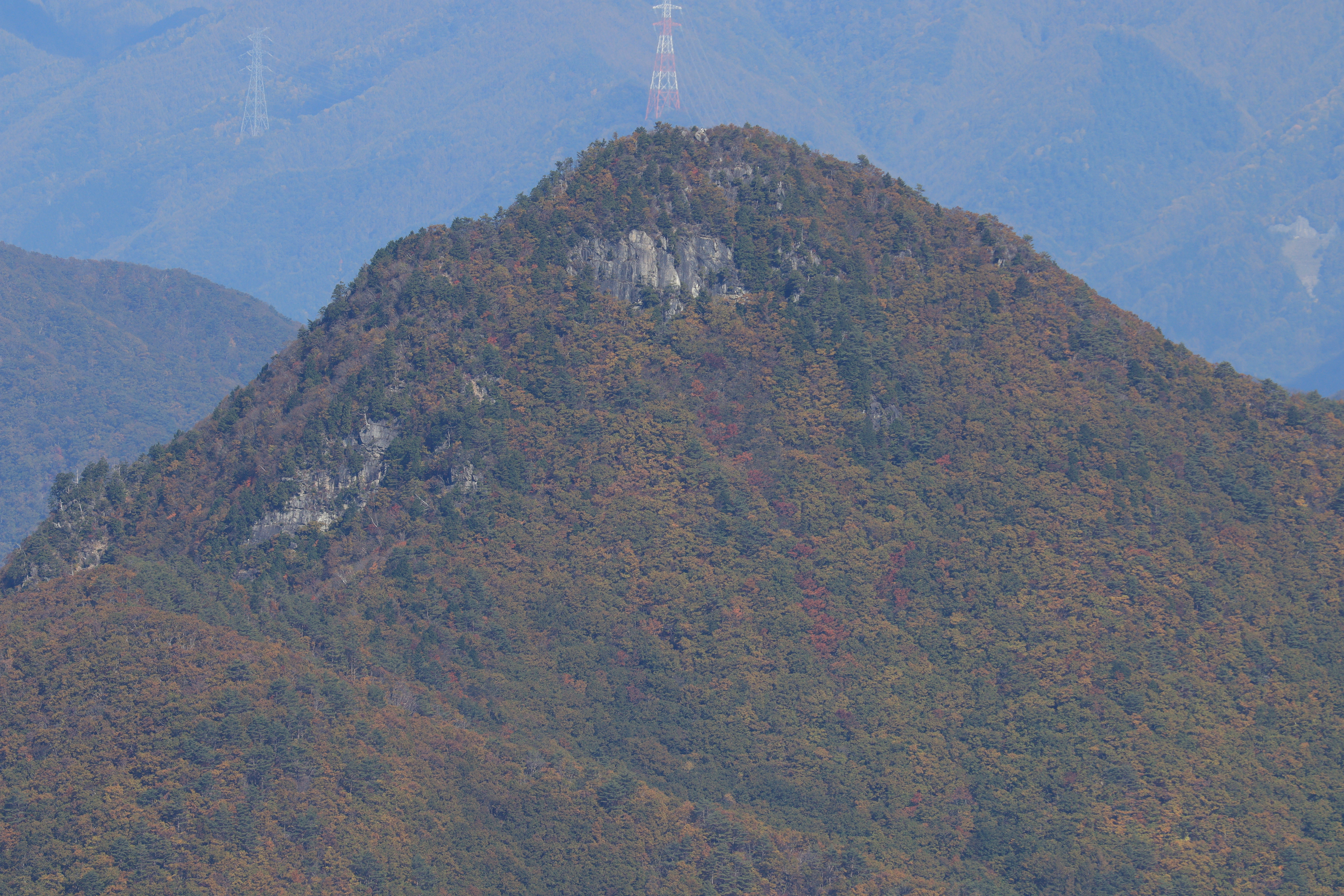 Mount Shaka seen from Mount Setto in Misaka Mountains, Fuefuki, Yamanashi Prefecture, Japan.